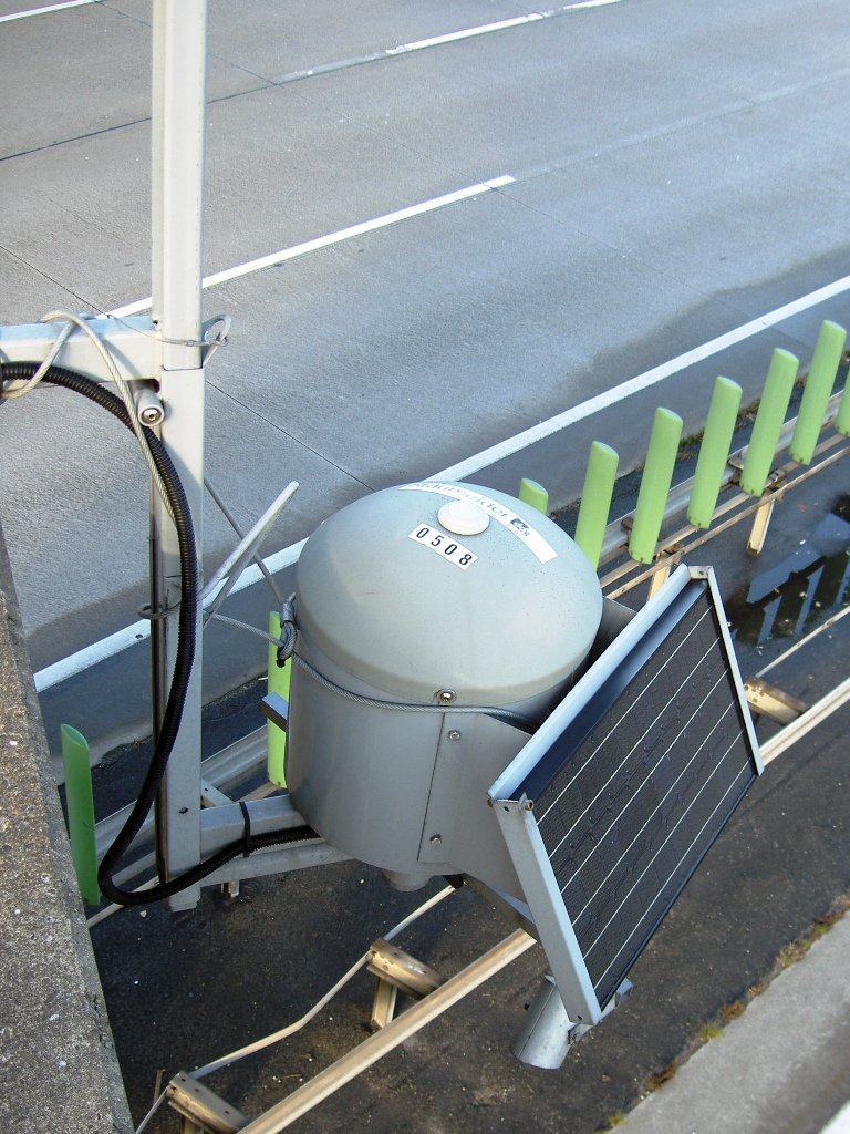 Germany A5 Darmstadt Stationäre Erfassungs-System Traffic jam detector